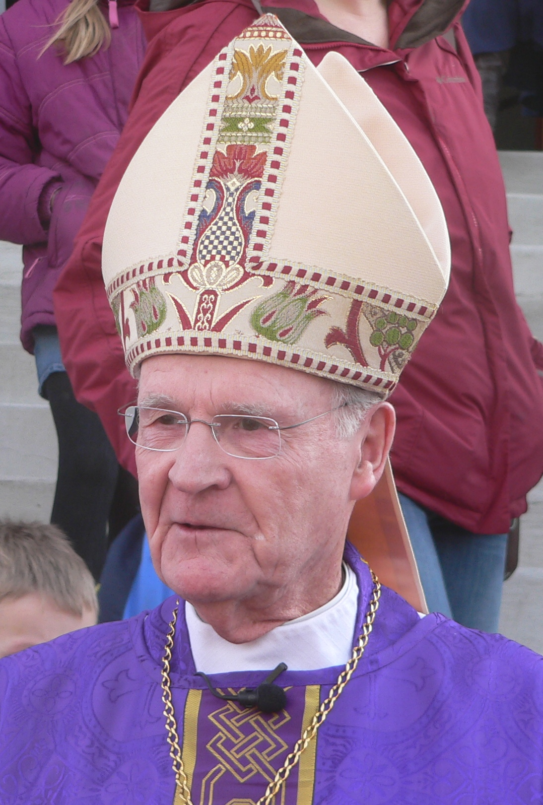 Elden Curtiss, Archbishop Emeritus of the Archdiocese of Omaha